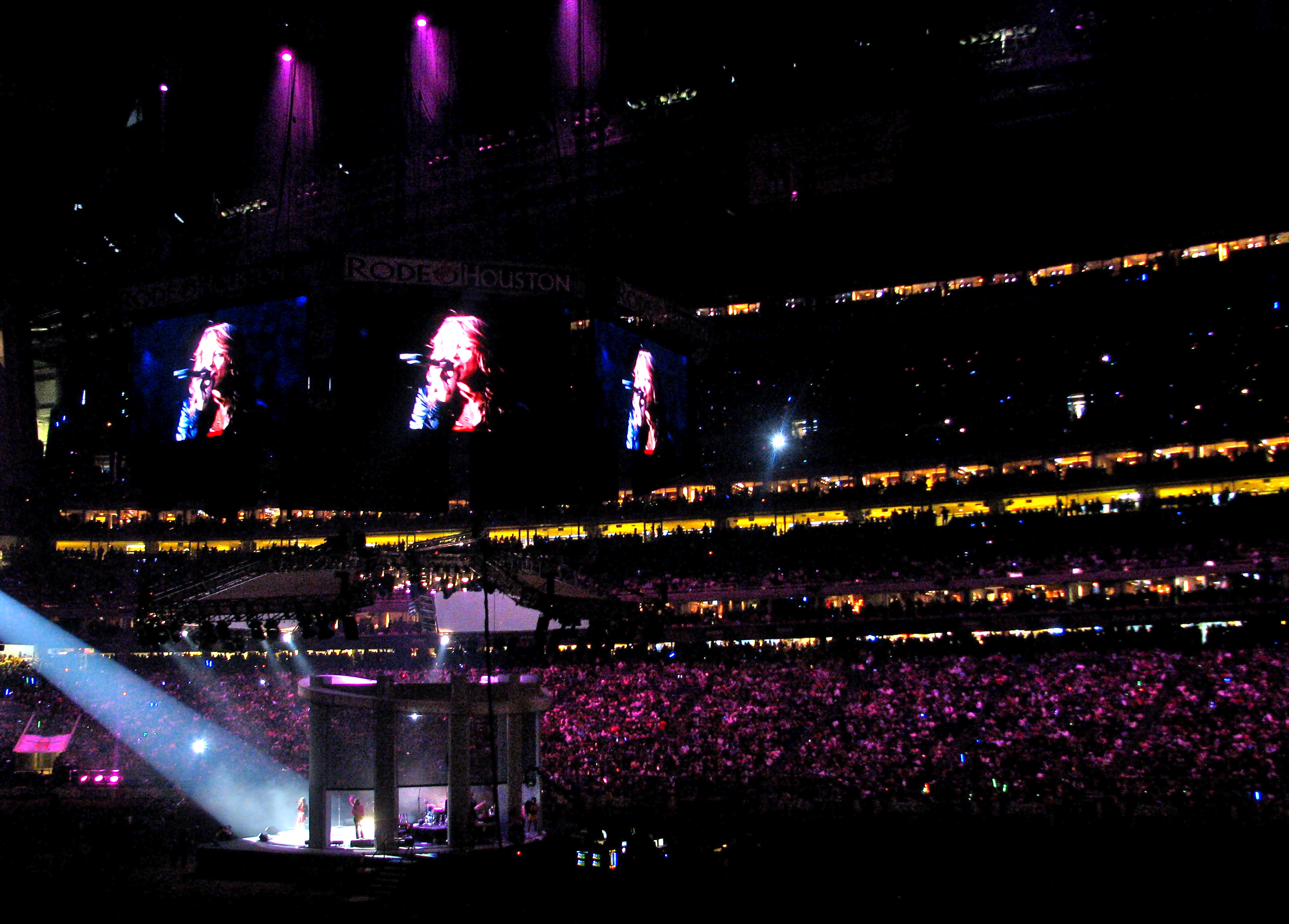 A sold out Miley Cyrus/Hannah Montana concert at the Houston Rodeo.